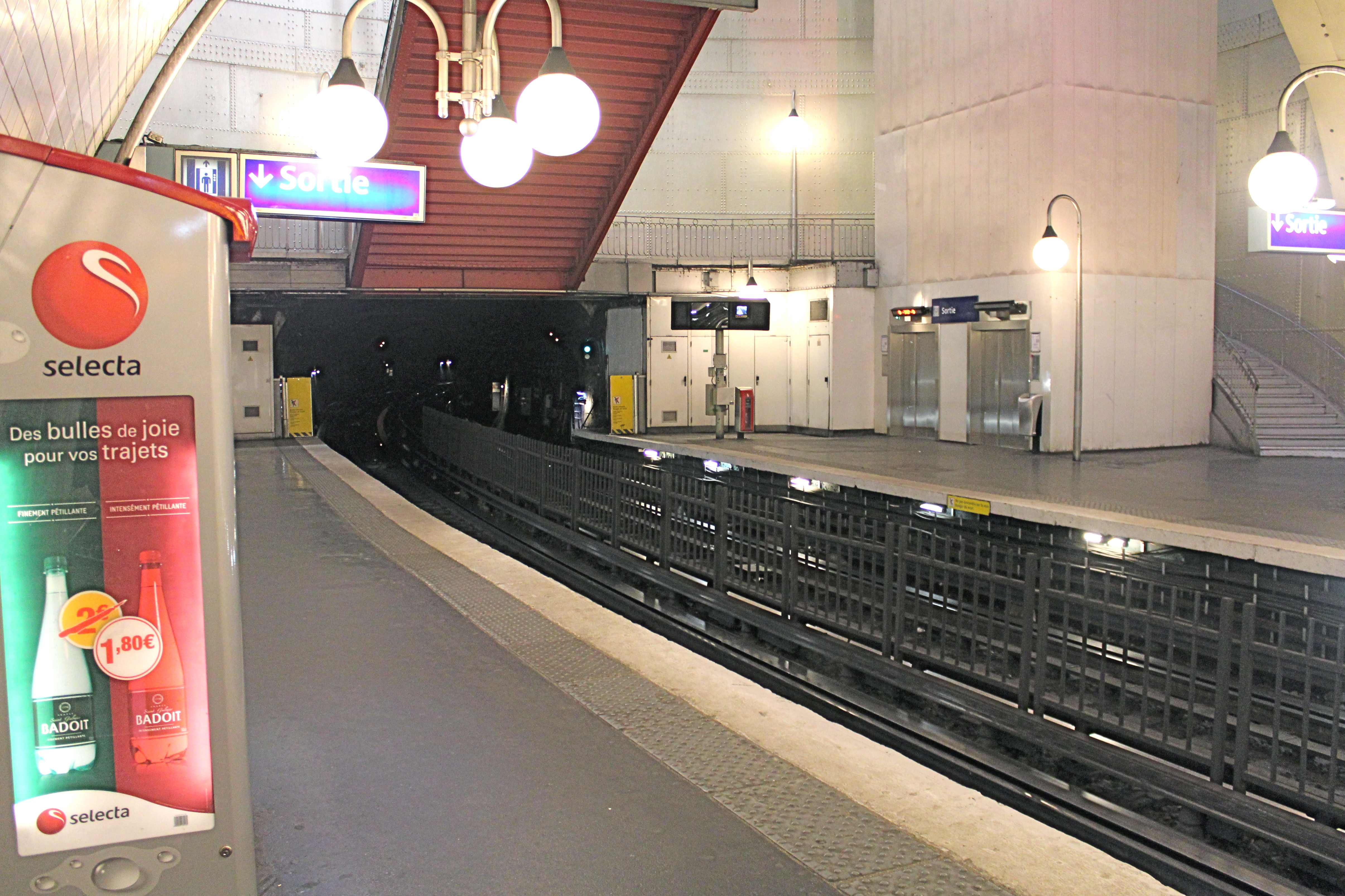 Cité (Paris Metro), March 2013